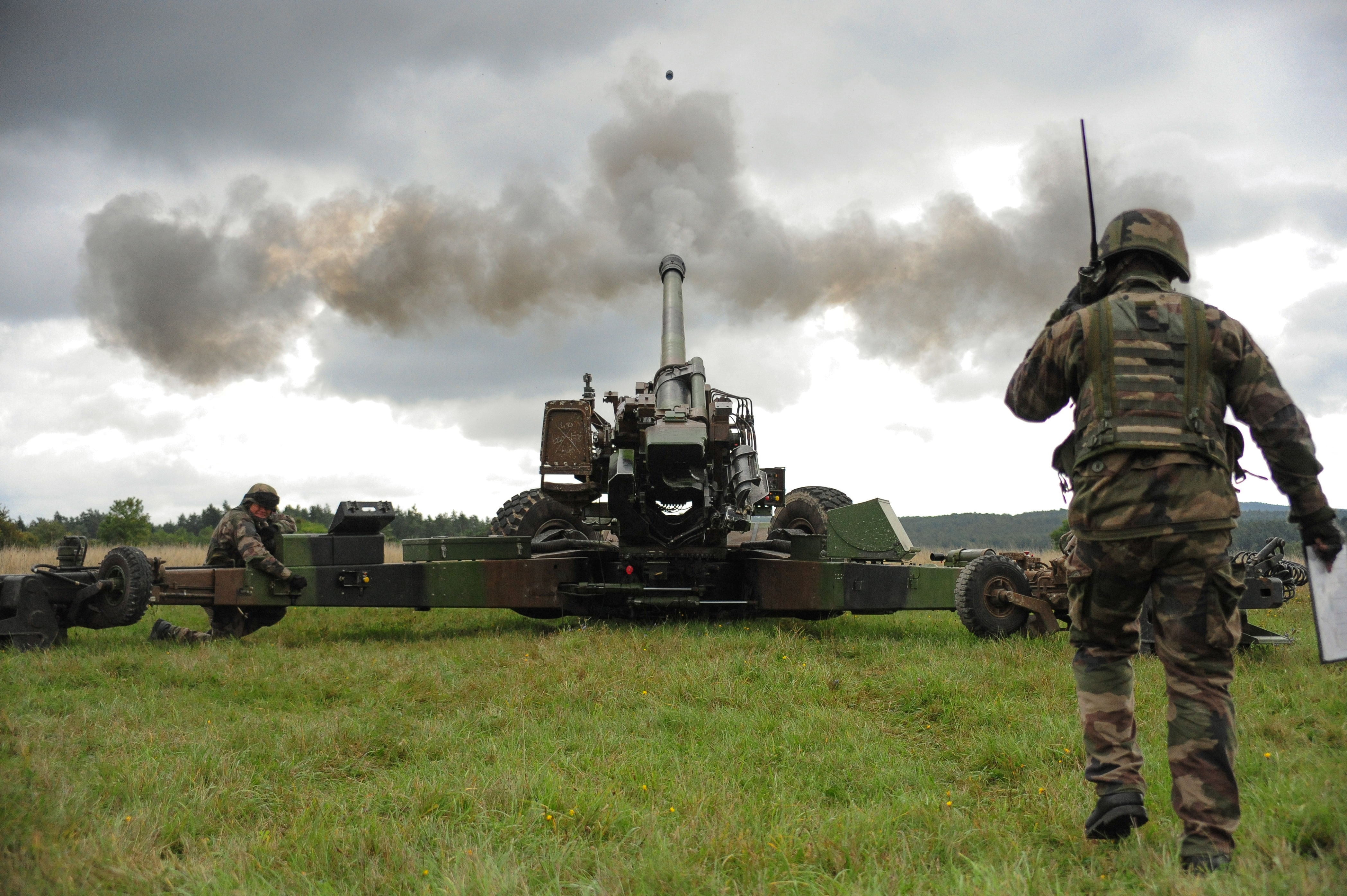 French soldiers fire a French TRF1 155 mm self-propelled howitzer of 3rd Marine Artillery Regiment as part of a live fire exercise during Combined Endeavor at the Joint Multinational Training Command's Grafenwoehr Training Area, Germany, Sept. 17, 2013. Combined Endeavor is an annual command, control, communications and computer systems (C4) exercise designed to prepare international forces for multinational operations in the European theater. (U.S. Army photo by Staff Sgt. Pablo Piedra/Released)